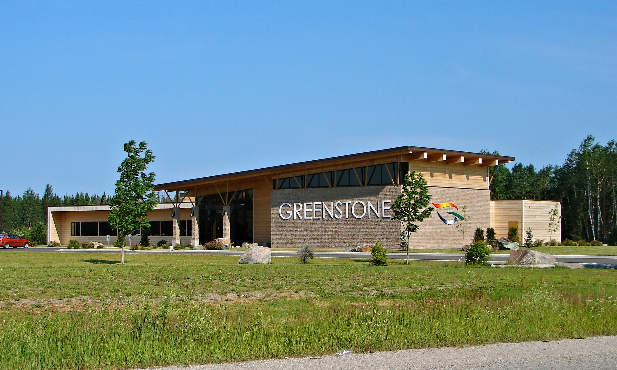 Municipal office of Greenstone in Geraldton, Ontario, Canada